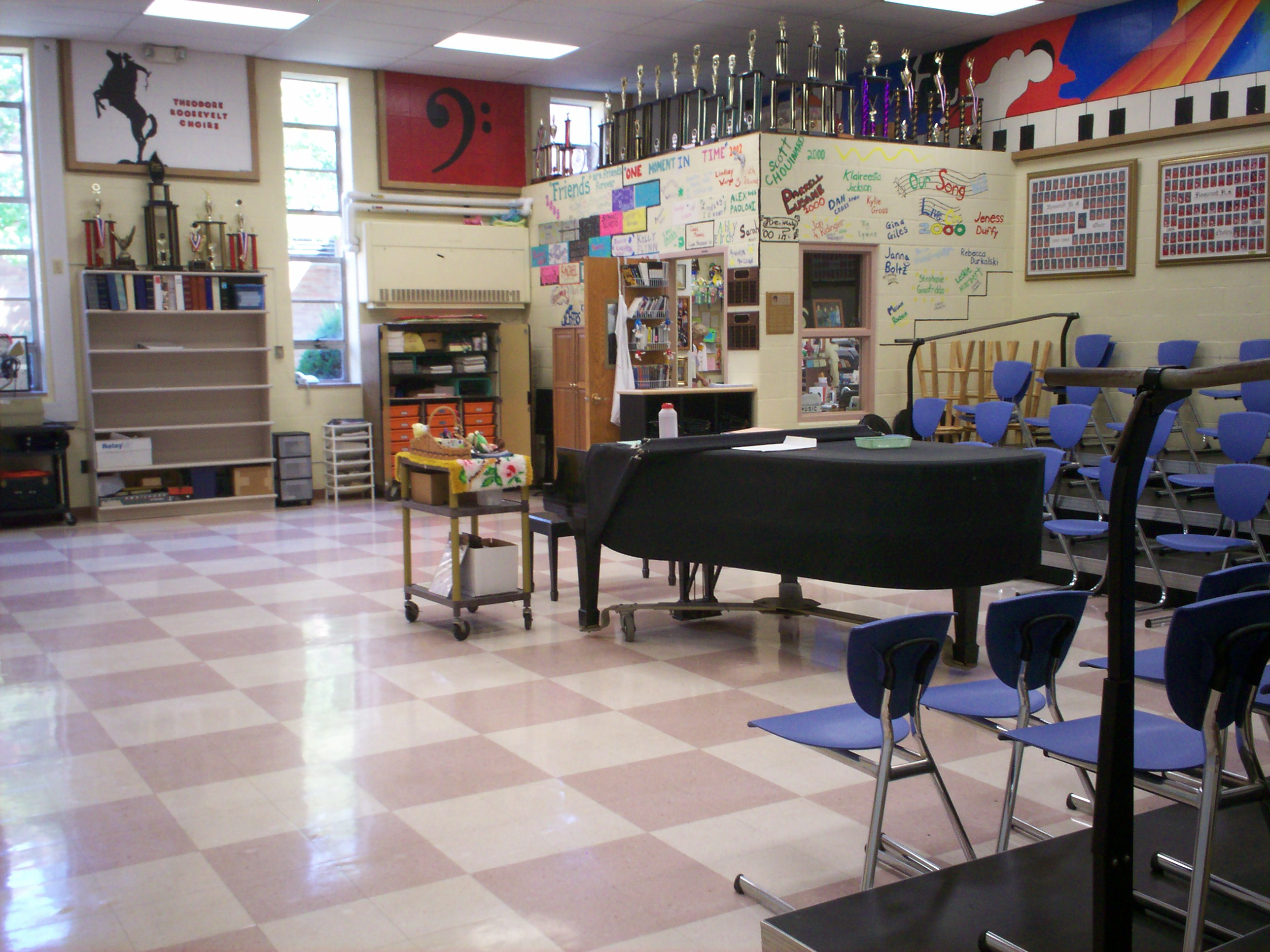 Choir room at Theodore Roosevelt High School in Kent, Ohio. The room was built as part of the original building in 1958-1959 and was renovated in 1997.